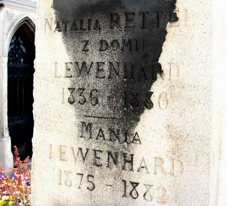 Natalia Rettel tombstone (grave of Anna Henryka Lewenhard born Pustowojtowna)